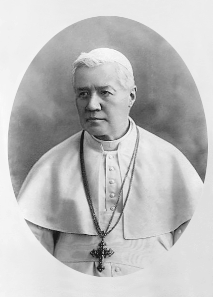 Portrait of Pope St. Pius X (1835-1914), 257th pope of the Roman Catholic Church.